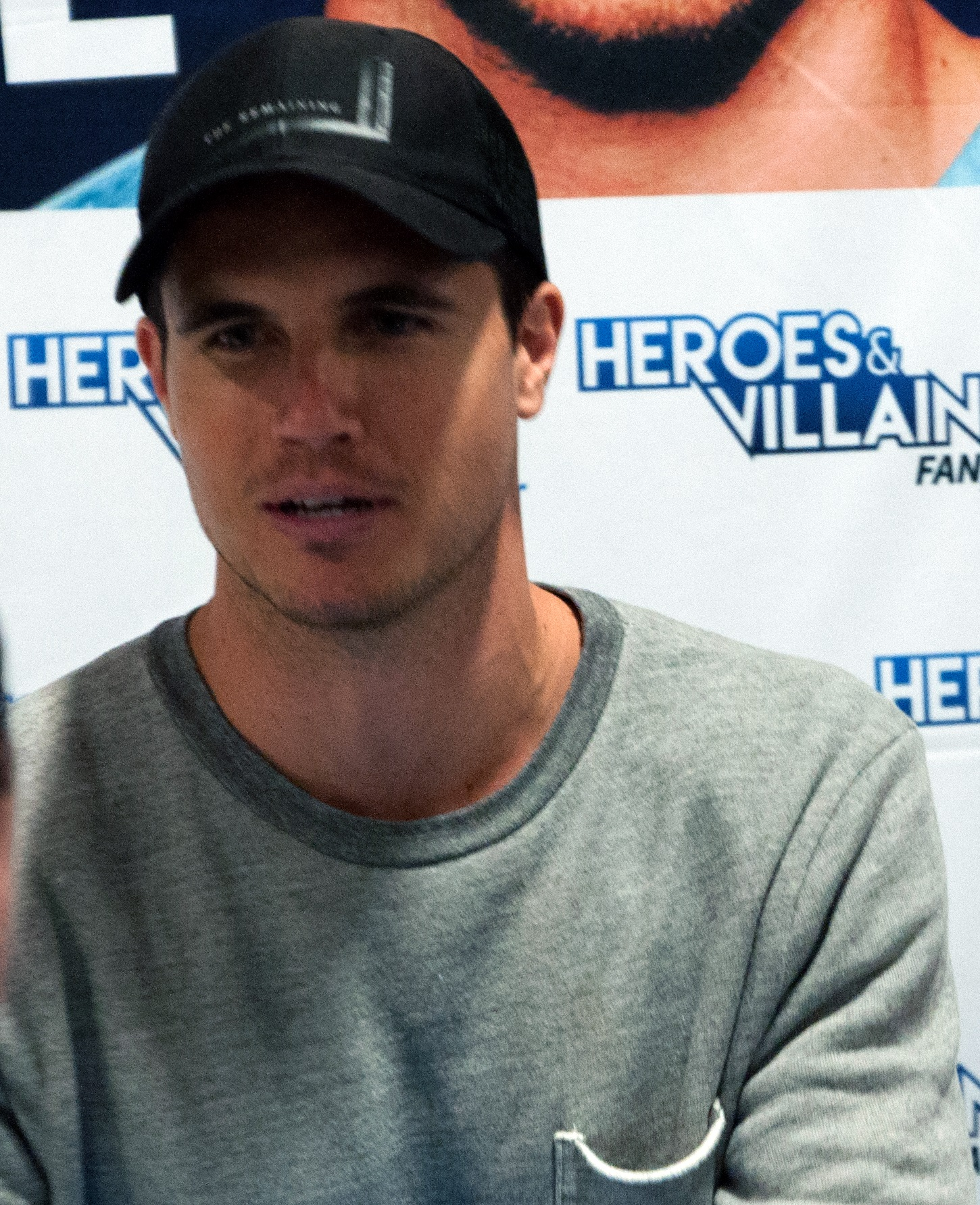 Robbie Amell in february 2016 at "Heroes and Villains fanfest